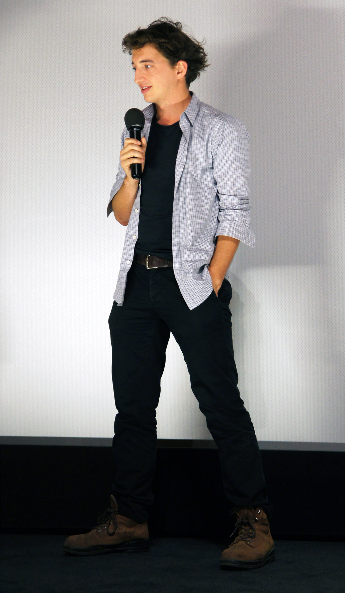 American director Benh Zeitlin discussing his new film Beasts of the Southern Wild at the Fantasy Film Festival in Berlin (Cinemaxx, Potsdamer Platz)